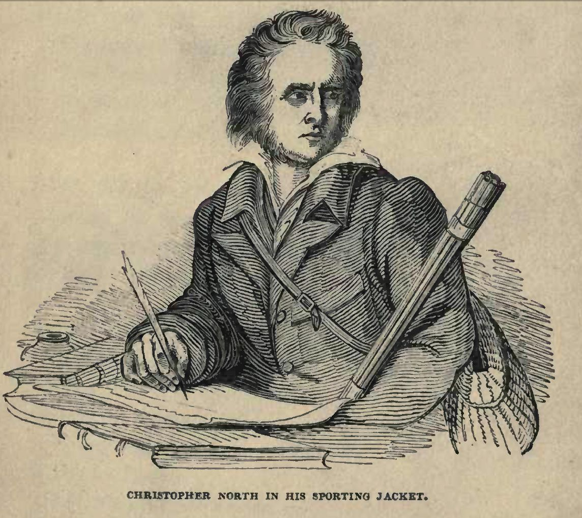 Woodcut of Christopher North in His Sporting Jacket from The Alphabet of Scientific Angling - Title page, by James Renne, MA (1833)